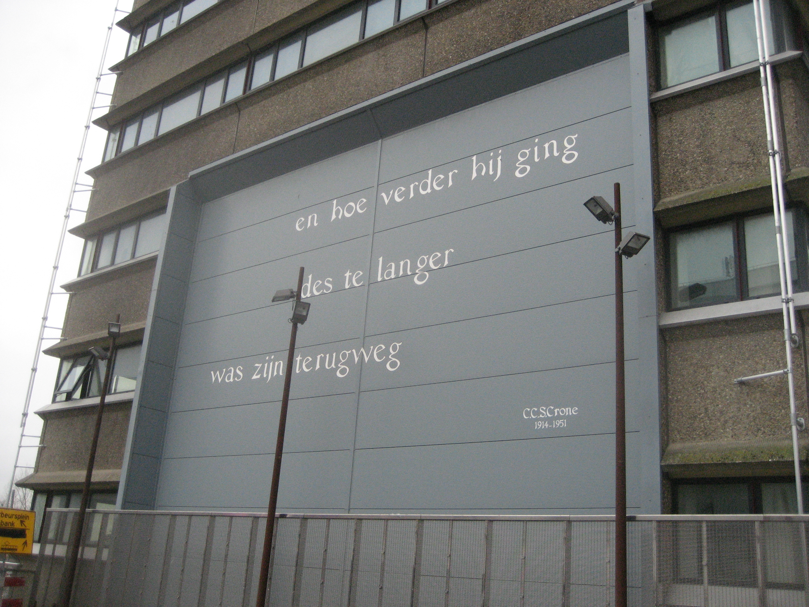 Wall poem by C.C.S Crone near Utrecht Central Railway Station (the Netherlands). Text reads: "en hoe verder hij ging / des te langer / was zijn terugweg".